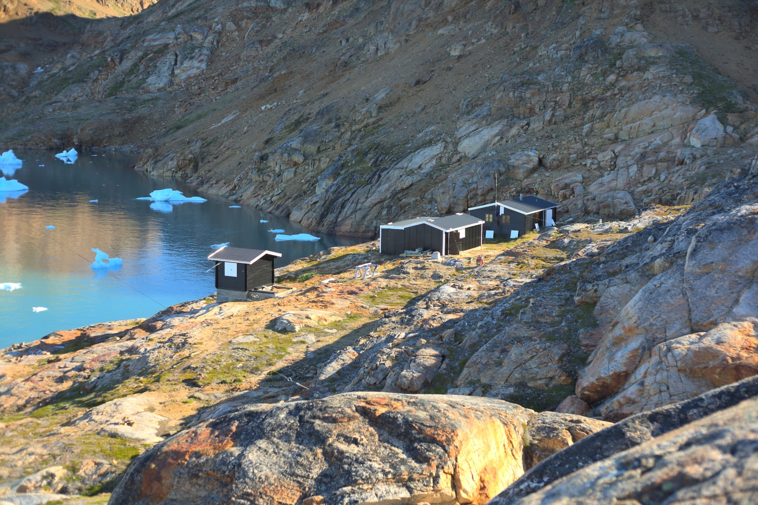 View of Sermilik Station on Ammassalik Island, East Greenland. Picture taken in August 2007.